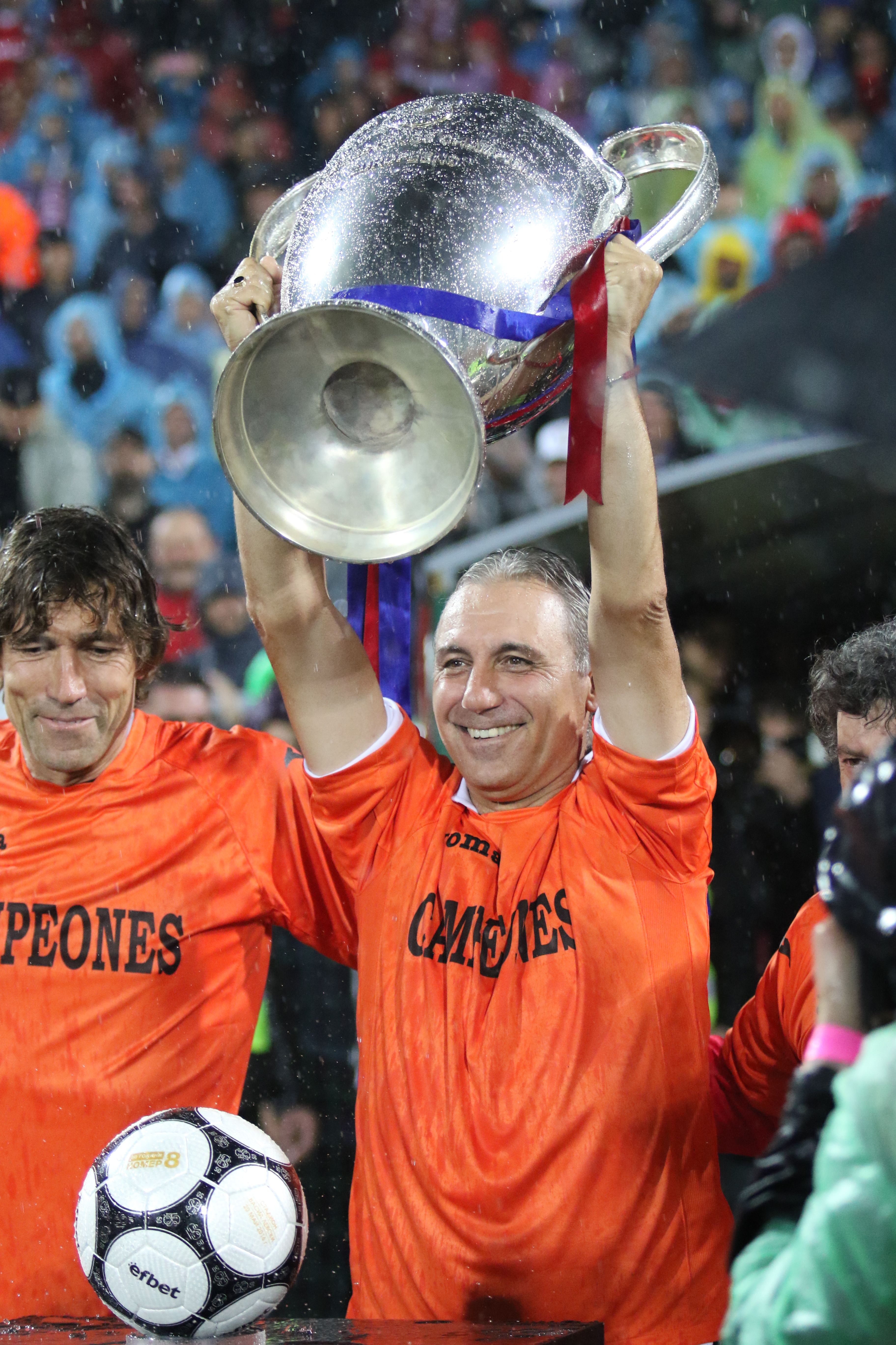 Hristo Stoichkov with the European Champions Cup for 1992, won with the team of Barcelona.